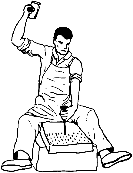 Briquero from Cantalejo (Segovia, Spain), chiseling a wood board for a threshing-sledge